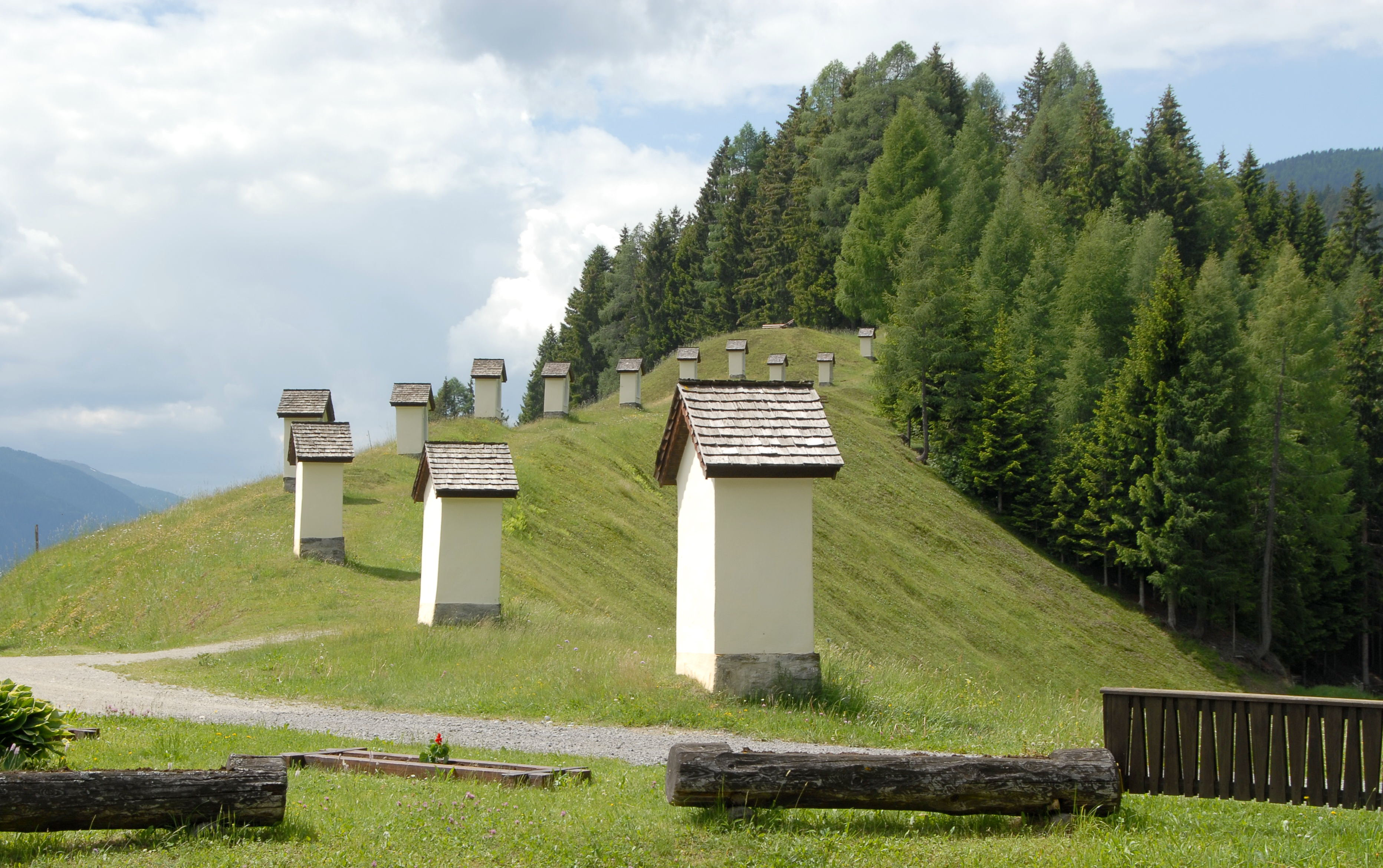 Stations of the Cross at Saint Jakob, municipality Kötschach-Mauthen, district Hermagor, Carinthia / Austria / EU